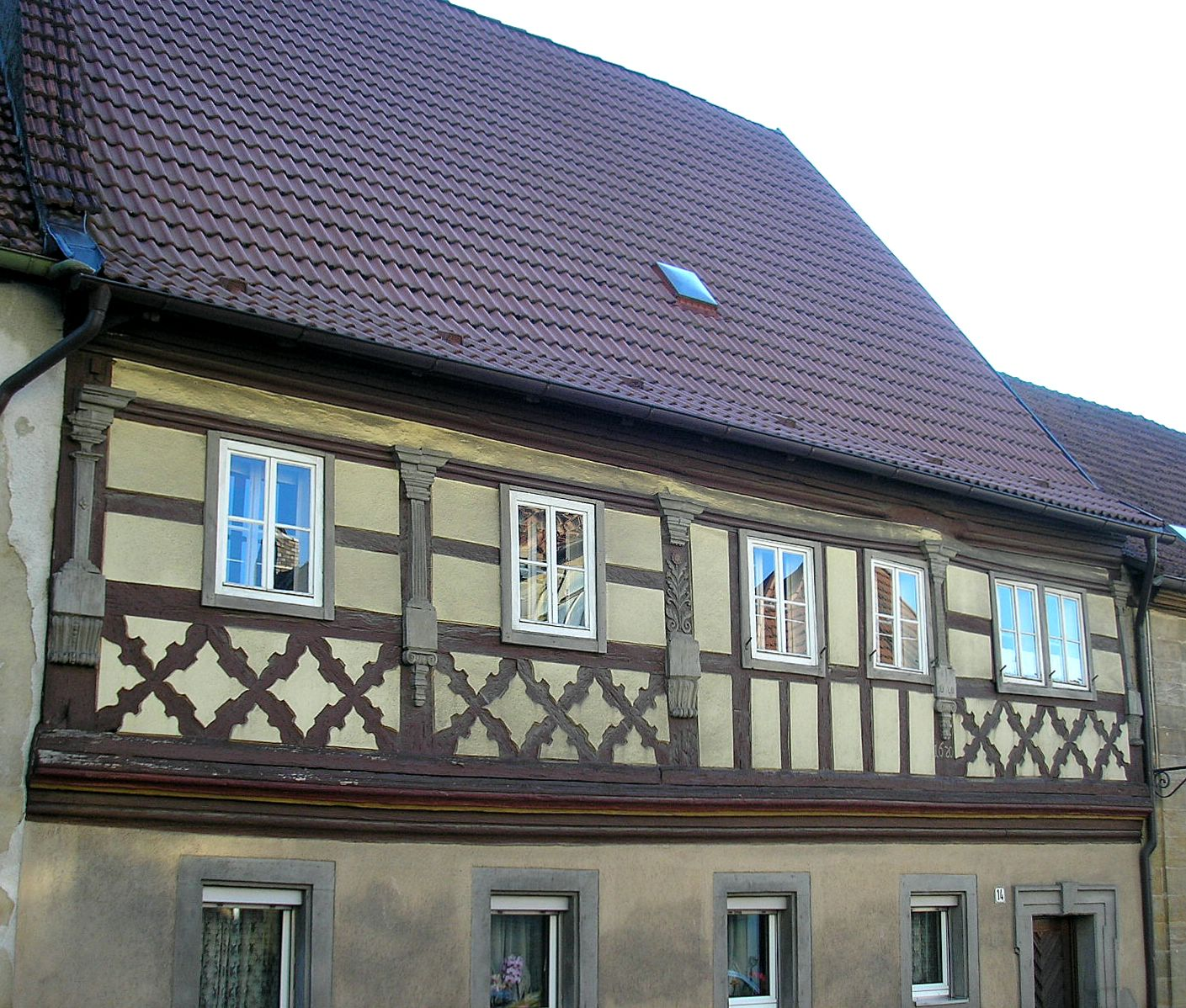 Ebern (Landkreis Haßberge, Lower Franconia, Germany). Timber frame building (1620) at the suburb "Klein Nürnberg"